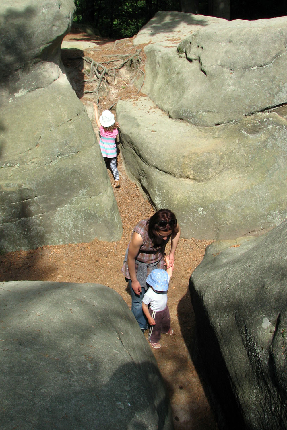 Stone City at Ciężkowice, Poland